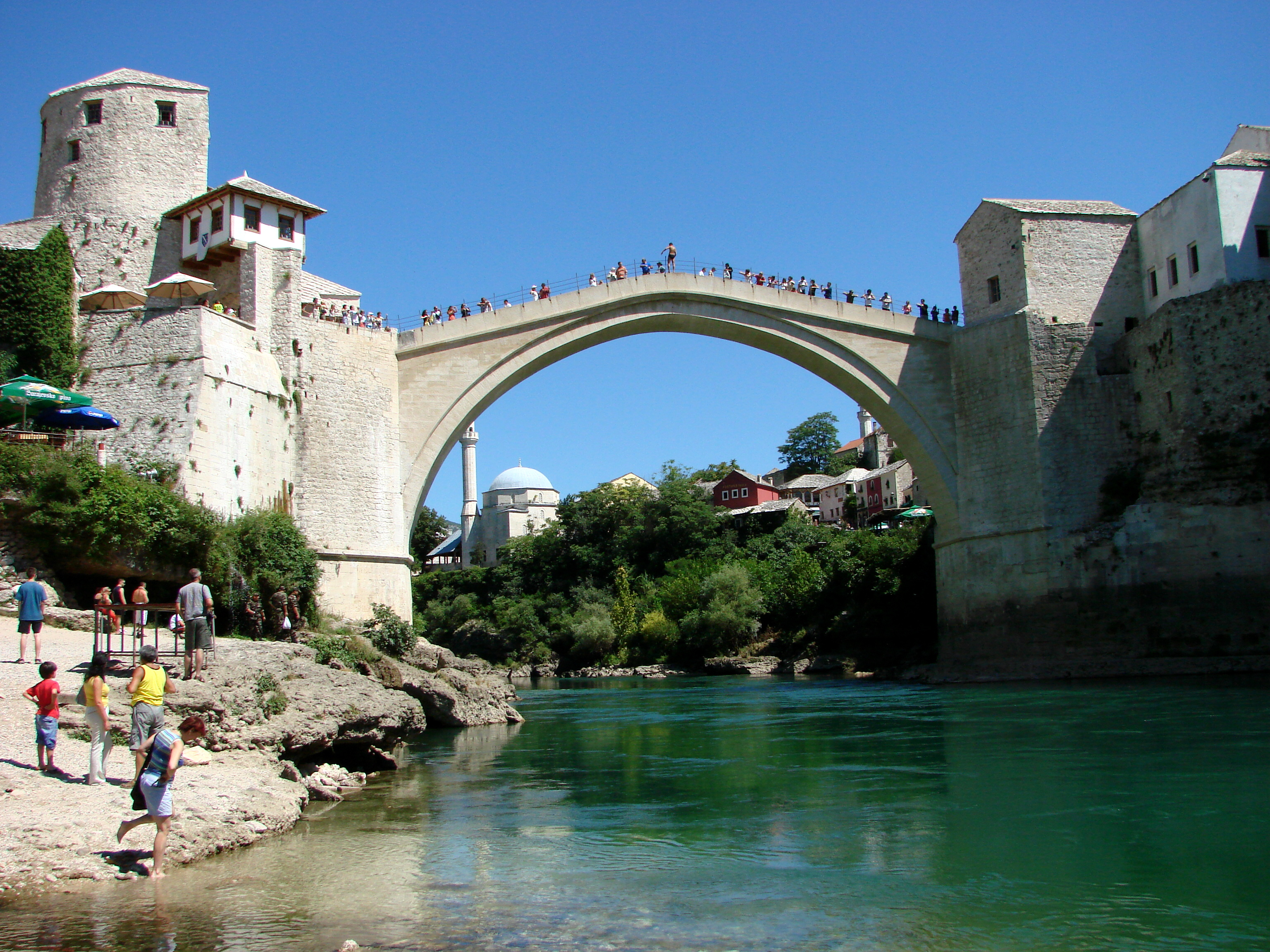 Mostar, Bosnia and Herzegovina. View from below of Stari Most bridge in the old city. July 2007.